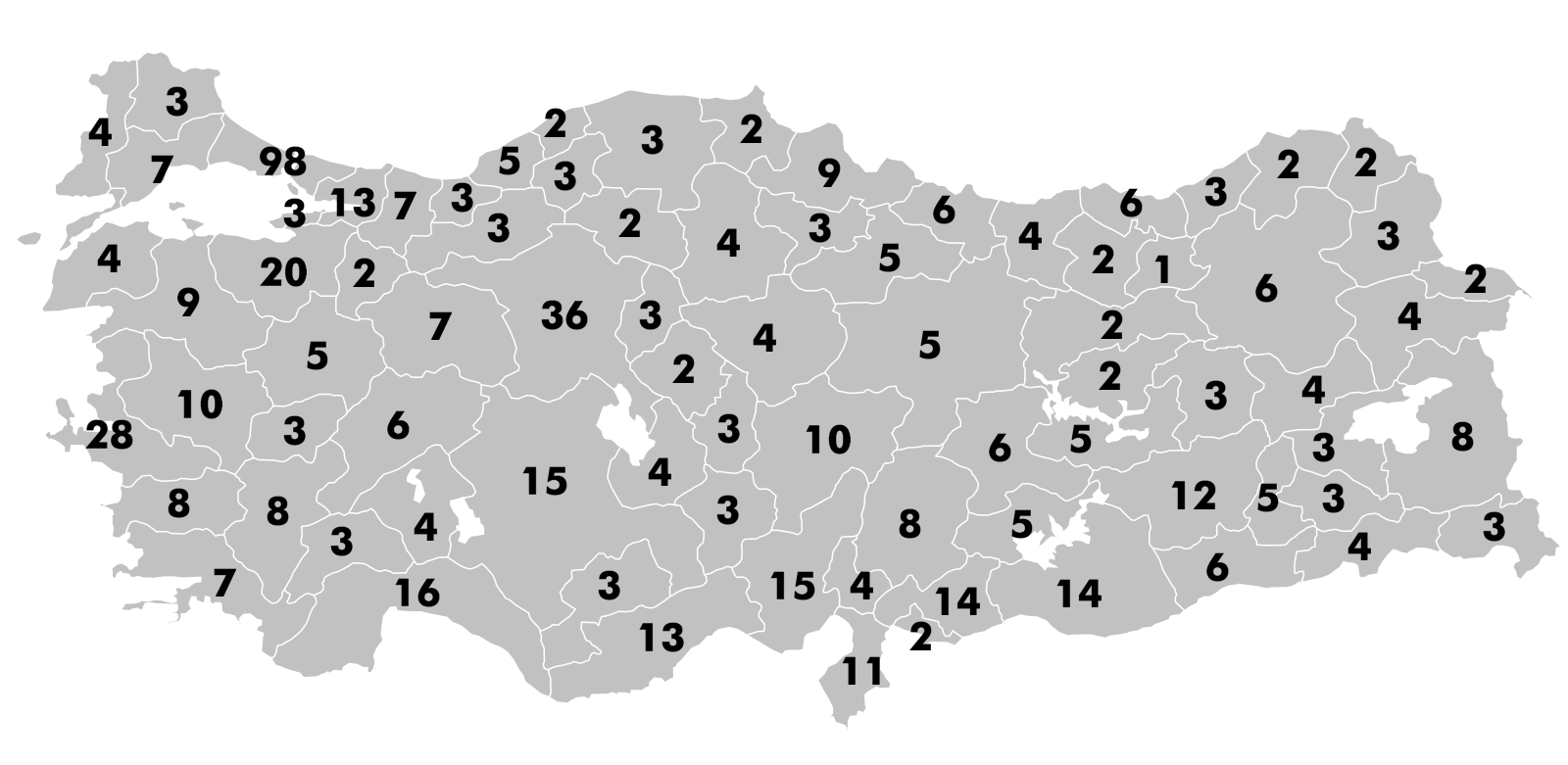 Turkey MP distribution post-2017 referendum ( Derived from File:Turkey provinces blank gray.svg